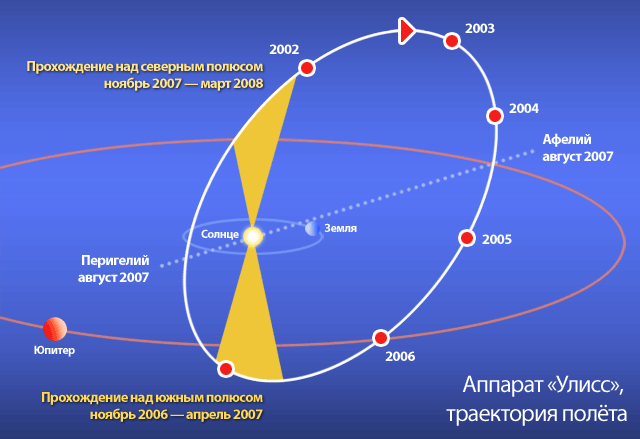 Orbit of Ulysses spasecraft